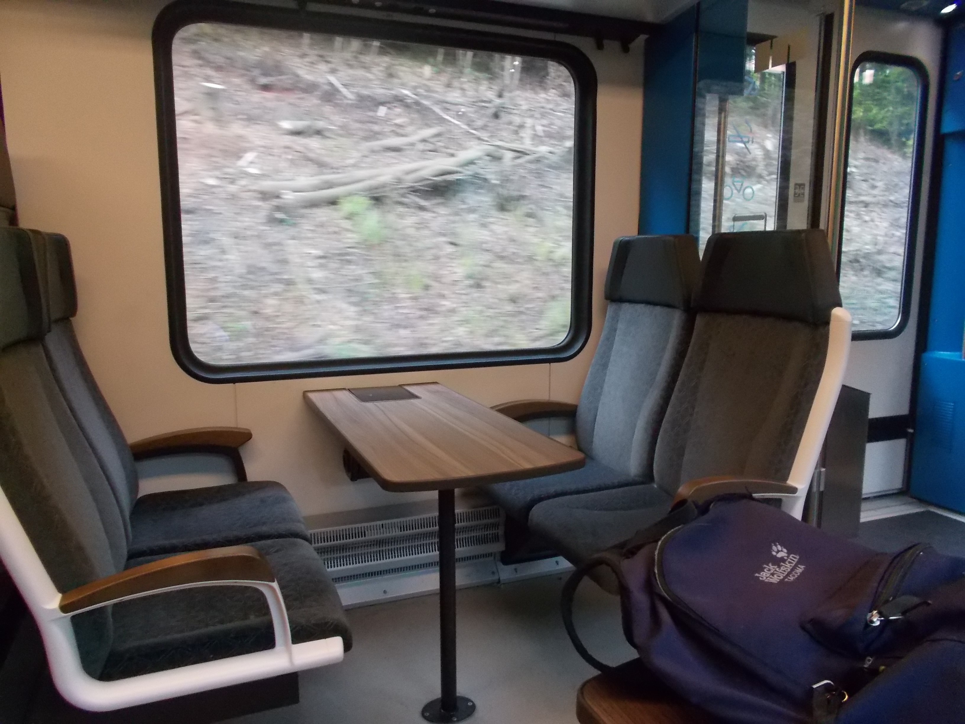 four seats with table in the middle in the Süwex train